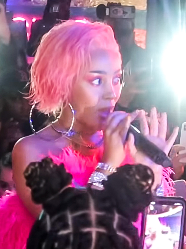 Doja Cat performing at the release party of her second album, Hot Pink